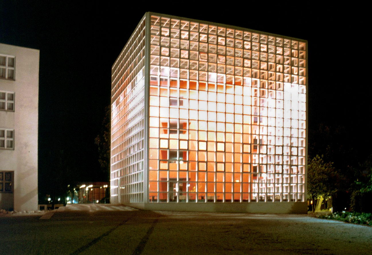 Library of the "Hochschule für Bildende Künste" in Braunschweig, Germany August 2003 by Matthias Prinke The building origins from the Mexican pavilion on the Expo 2000 in Hanover.